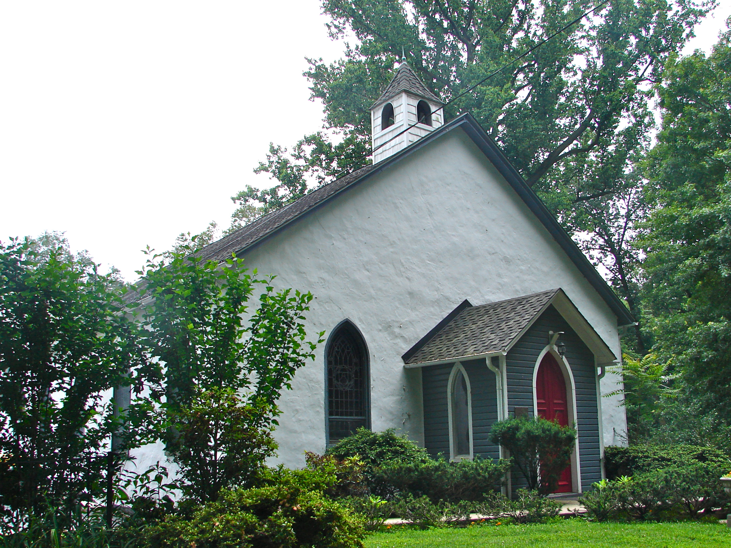 Mount Lebanon Methodist Episcopal Church on the NRHP since May 3, 1984. At 850 Mount Lebanon Rd., north of Wilmington, Delaware